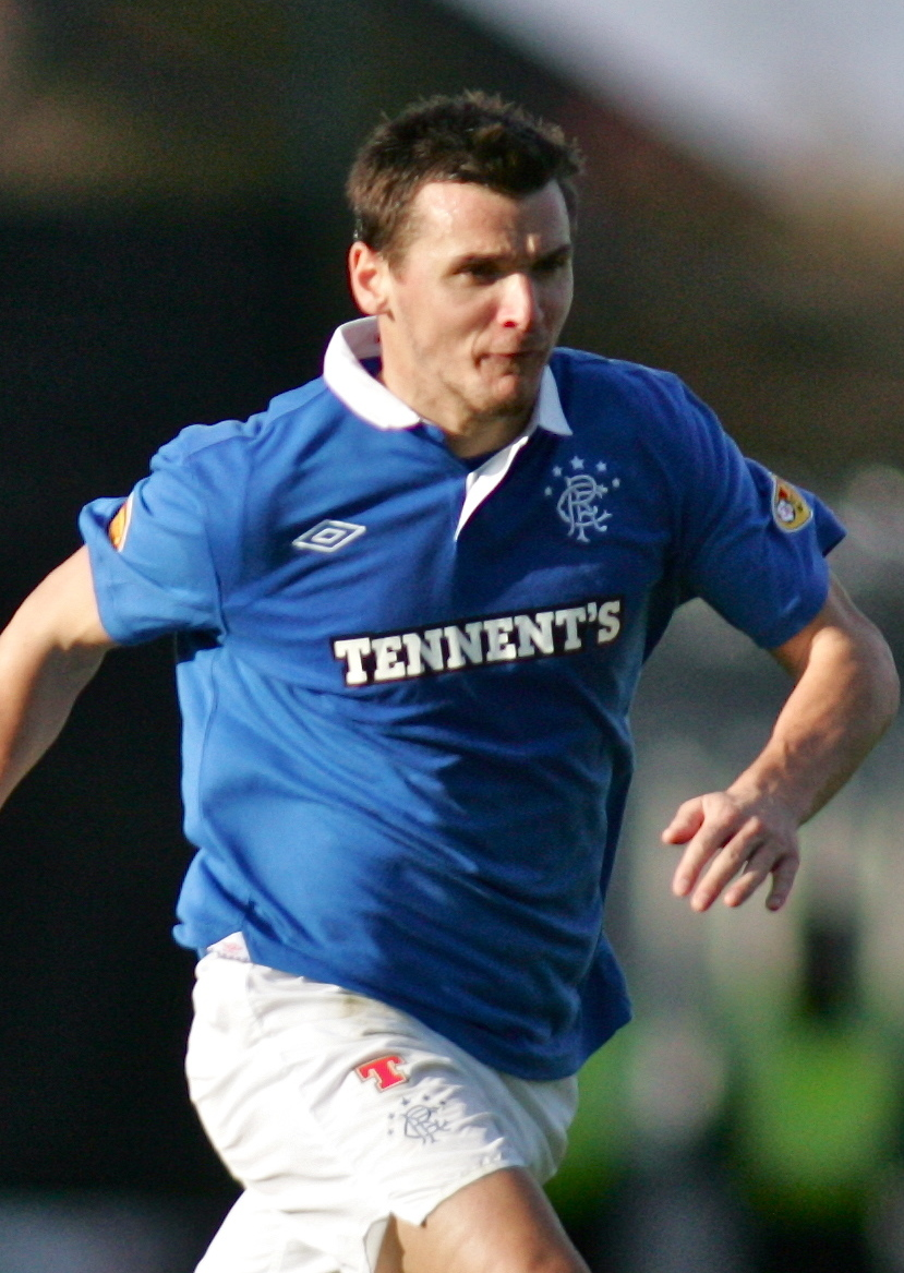 Lee McCulloch playing for Rangers F.C. in a Scottish Premier League match against St. Mirren F.C. played on 7 November 2010